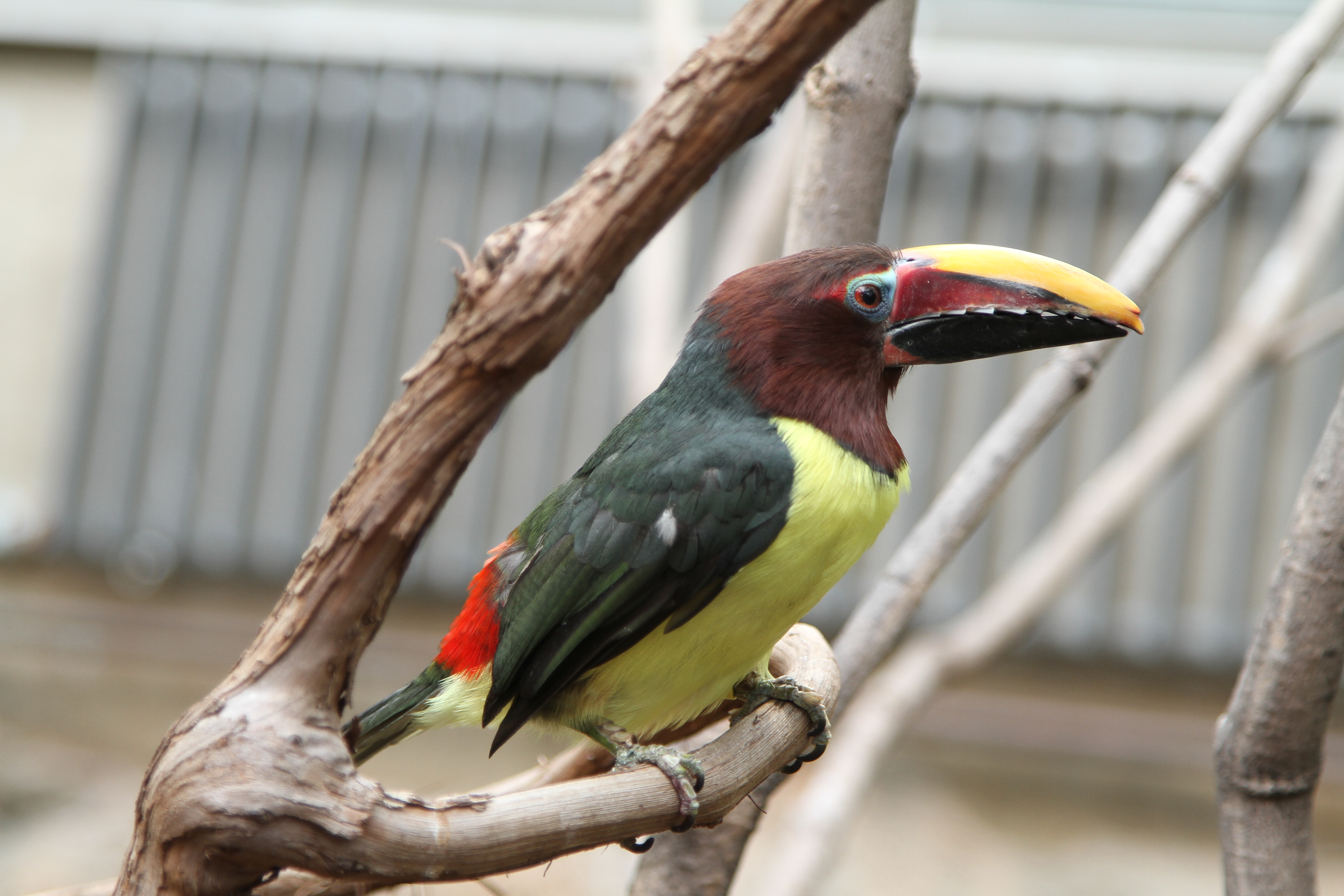 A female Green Aracari at Philadelphia Zoo, Pennsylvania, USA.